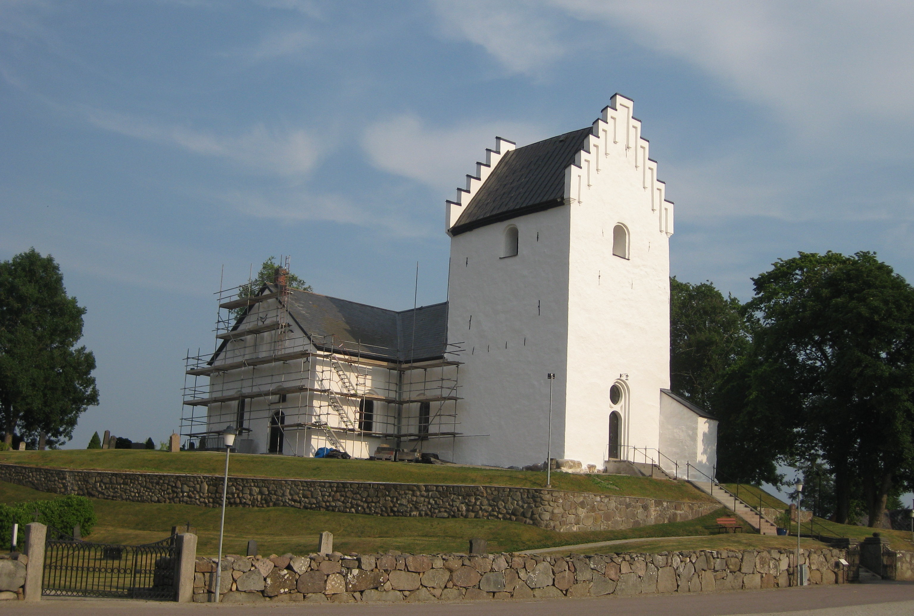 Tolånga church, Skåne, Sweden